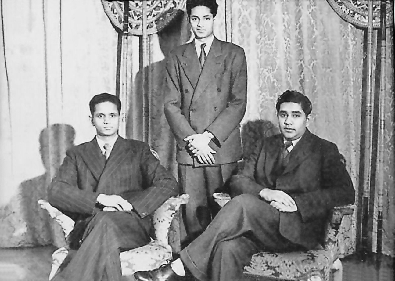 Photograph of Tissa, Nissanka and Cuda